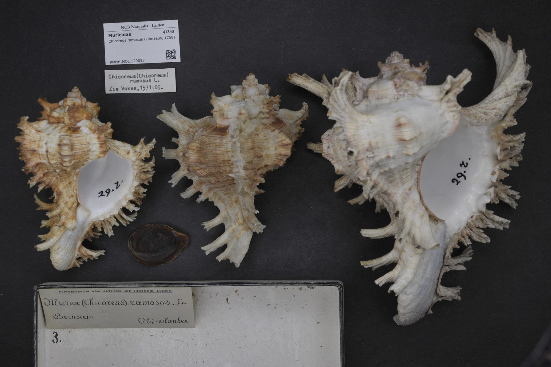 Chicoreus ramosus (Linnaeus, 1758)